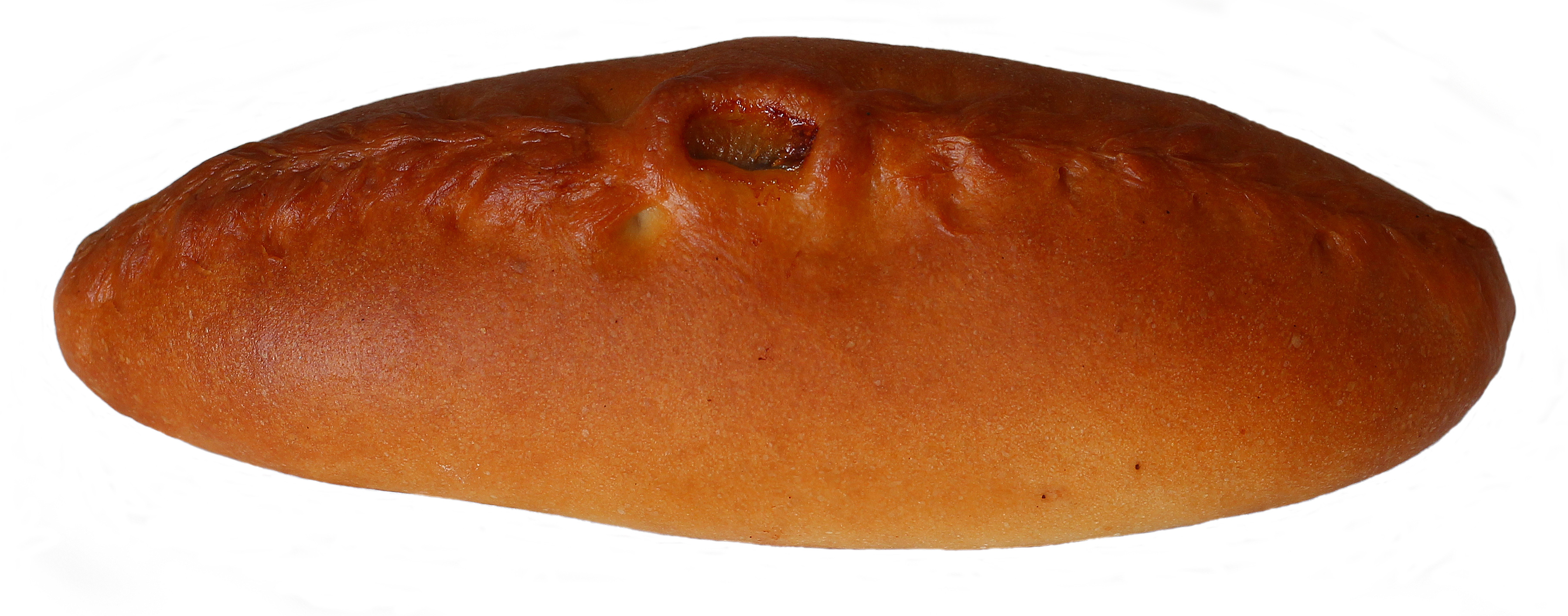 A Russian «rasstegai» (a sort of pierog with fish filling)